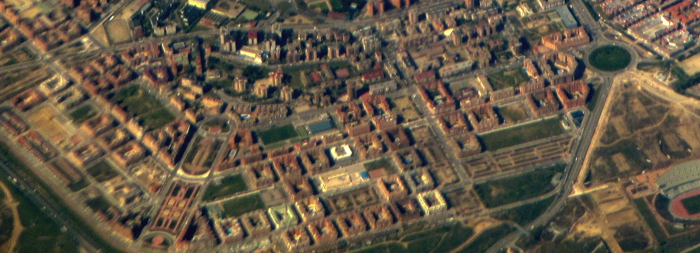 Ventas, Canillejas, Quintana, Cementerio de la Almudena